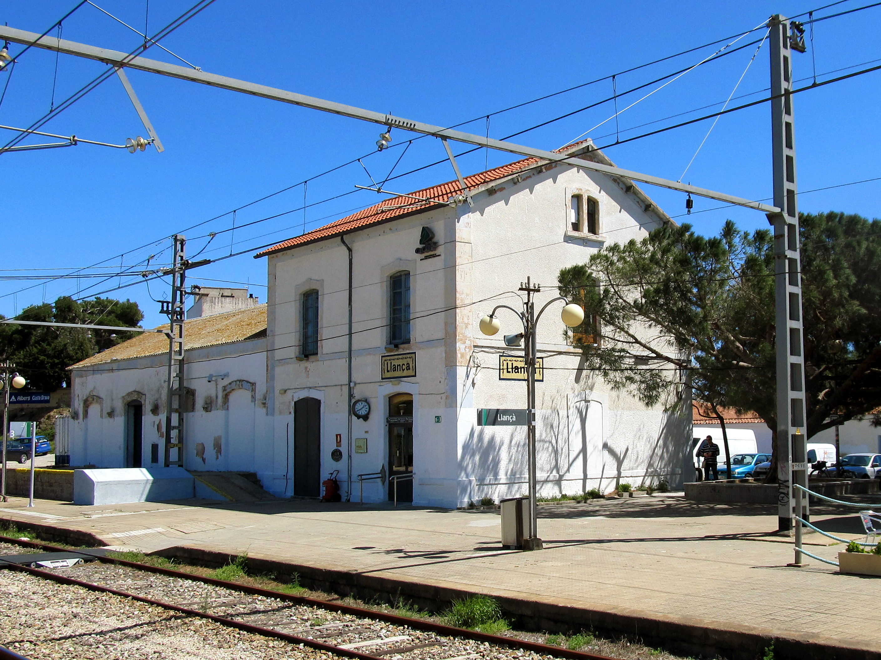 Llançà train station (Llança, Catalonia, Spain).